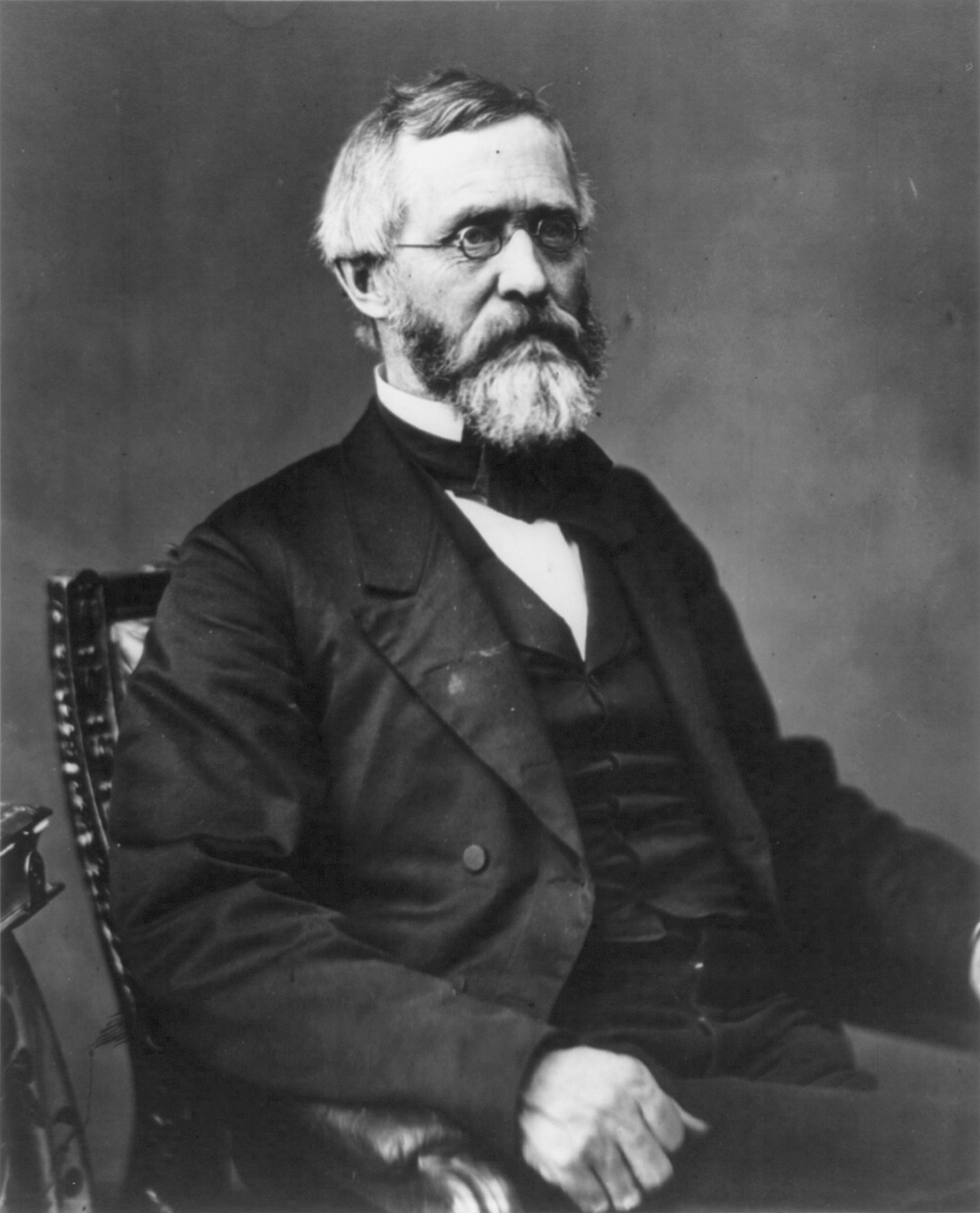 Ebenezer Rockwood Hoar, half lgth., seated, facing right.